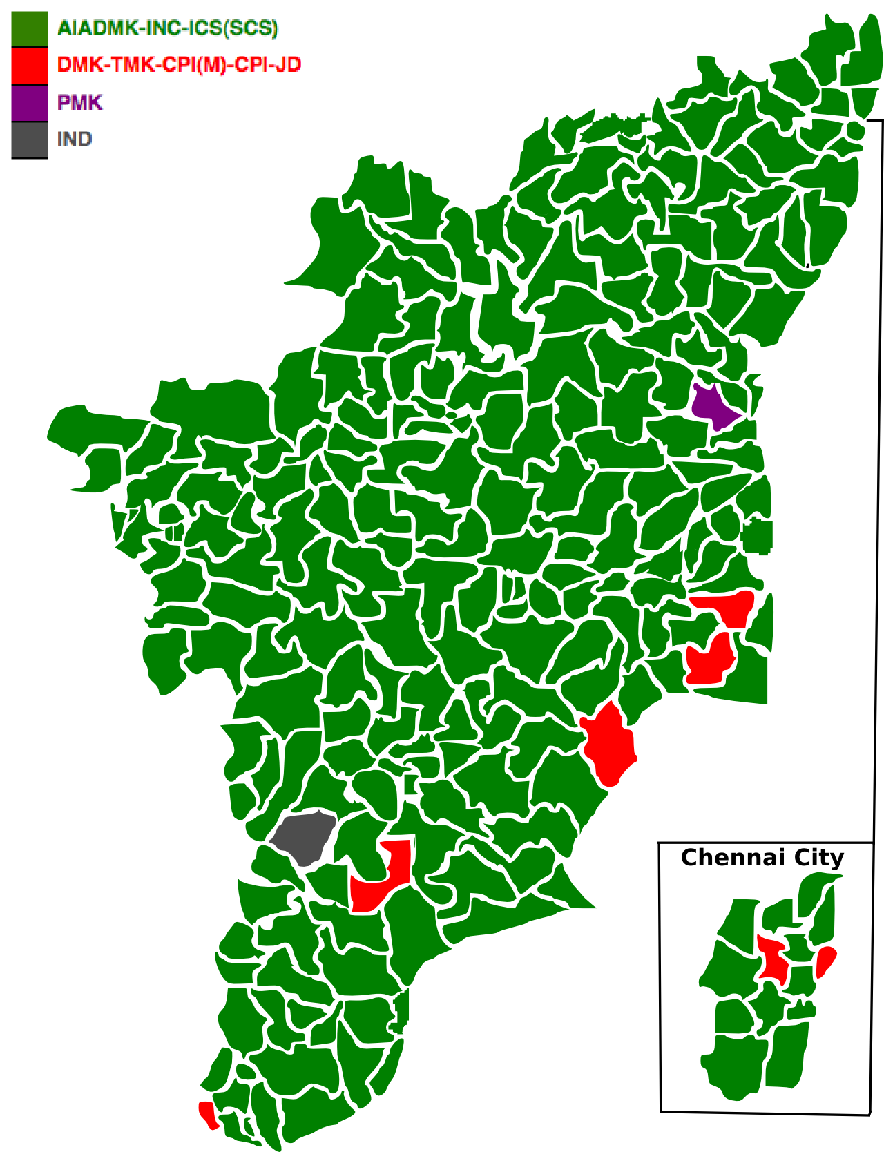 made election map using borders from ECI website using Inkscape.